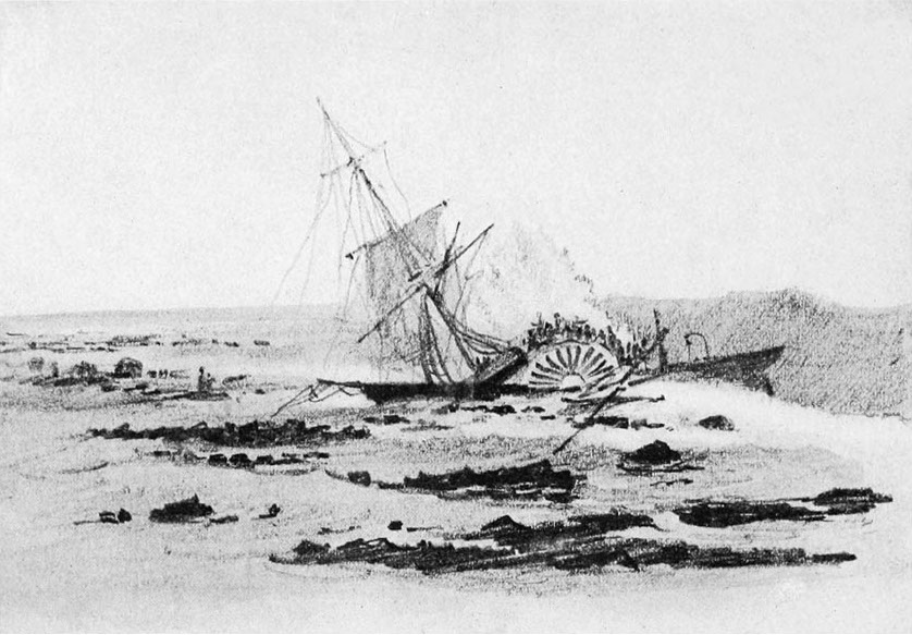 USS Saginaw (1859)